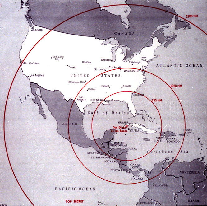 Map of the western hemisphere showing the full range of the nuclear missiles under construction in Cuba, used during the secret meetings on the Cuban crisis.